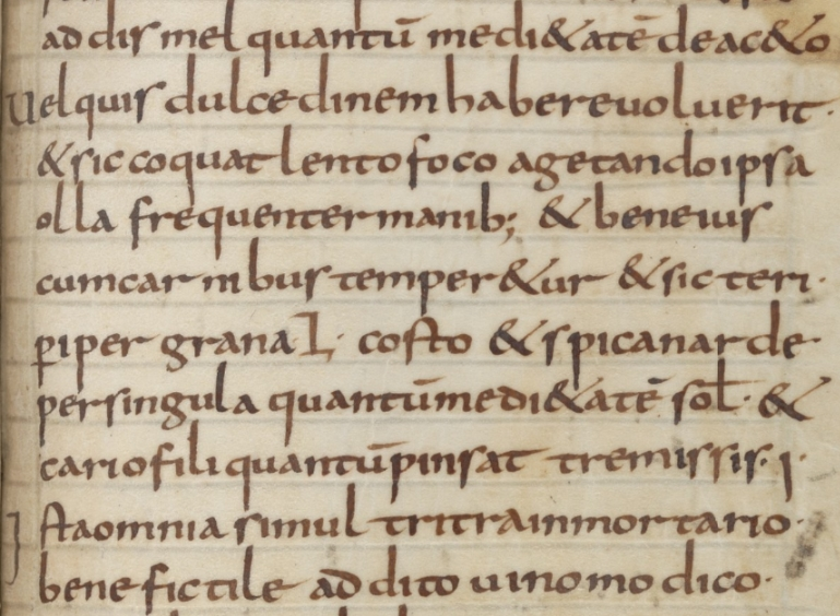 Anthimus, De observatione ciborum MS St. Gallen 762 p. 223 detail: ingredients for beef stew